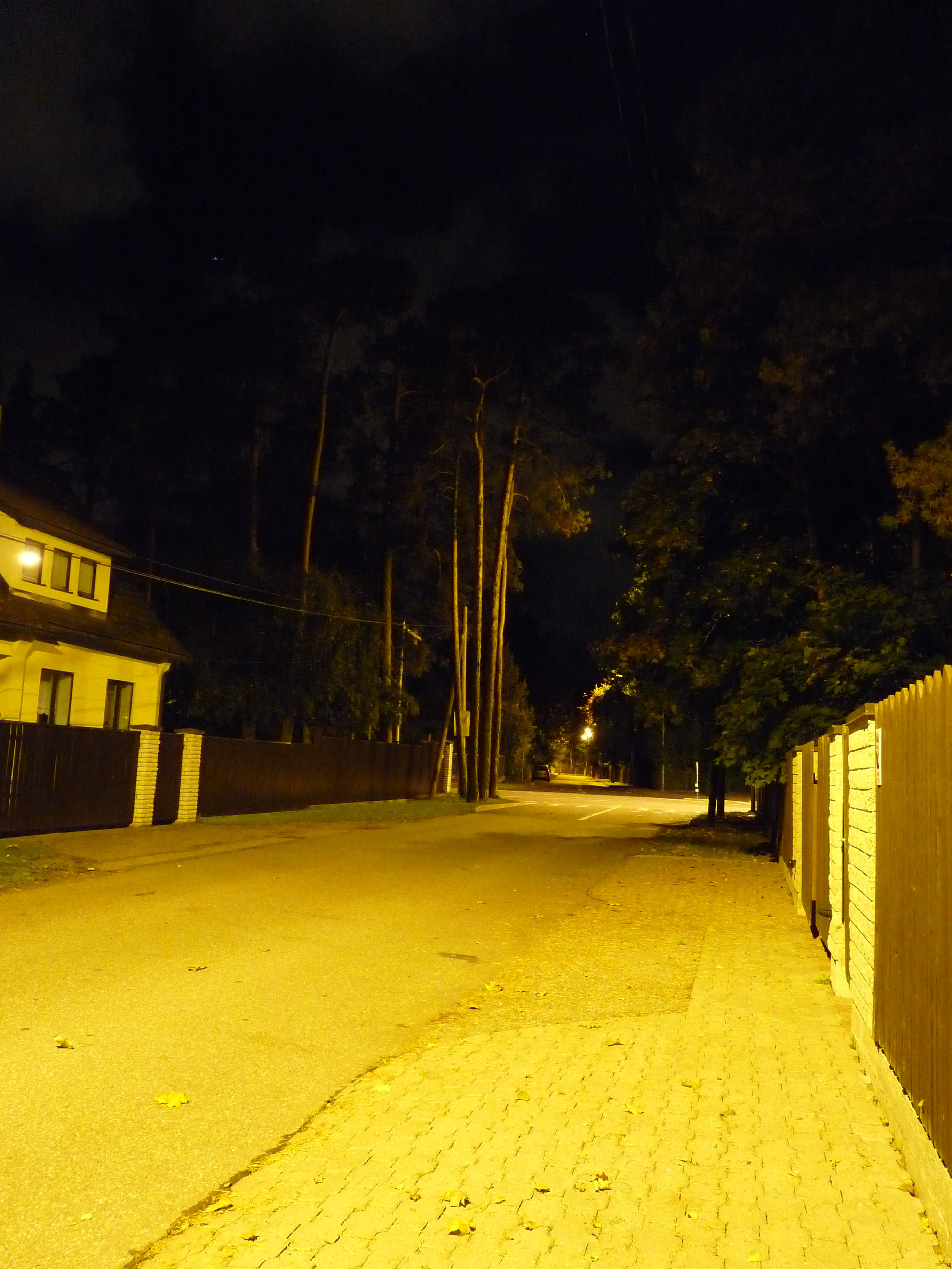 Värava street in Tallinn, Estonia